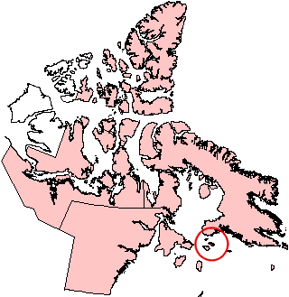 Image shows location of Salisbury Island, Nunavut, Canada